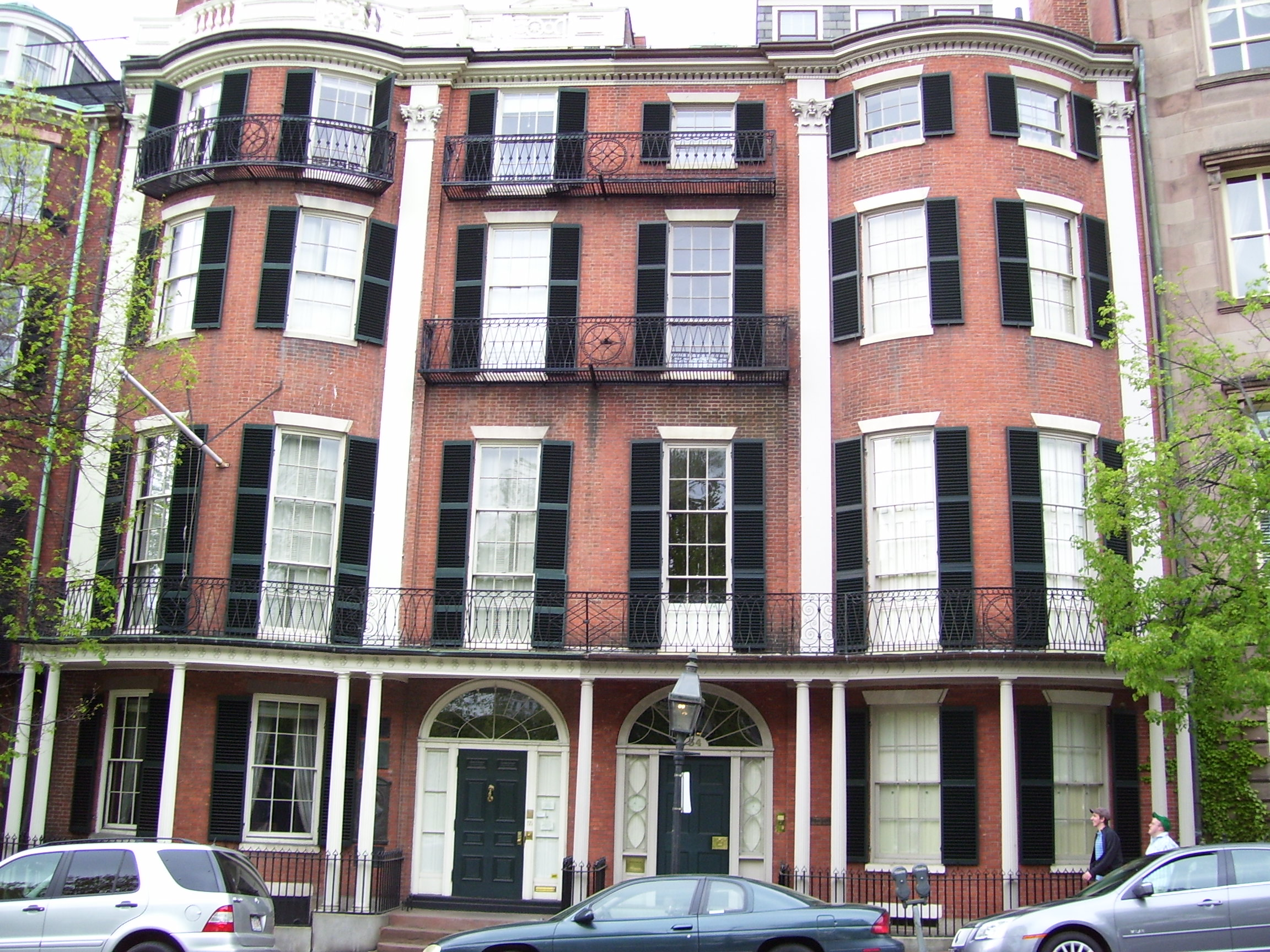 My 2008 photo of the Headquarters HOuse on 55 Beacon Street in Boston, MAssachusetts.